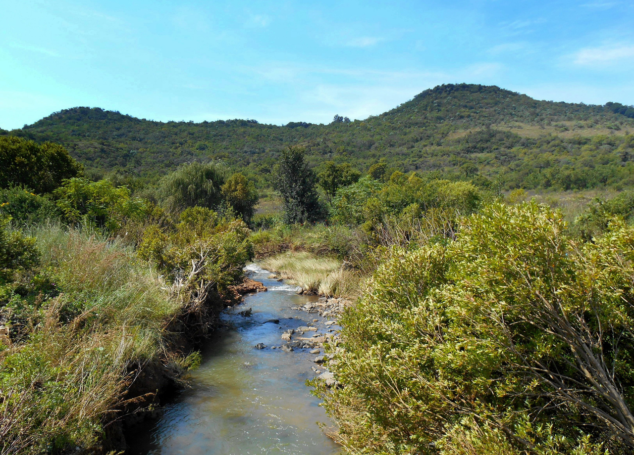 Faerie Glen Nature Reserve